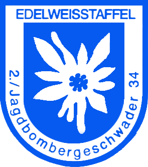 Internal coat of arms of the Bundeswehr (Armed Forces of the Federal Republic of Germany). → Remarks on naming and categorization scheme 2. JaboG 34 "A" Edelweiss